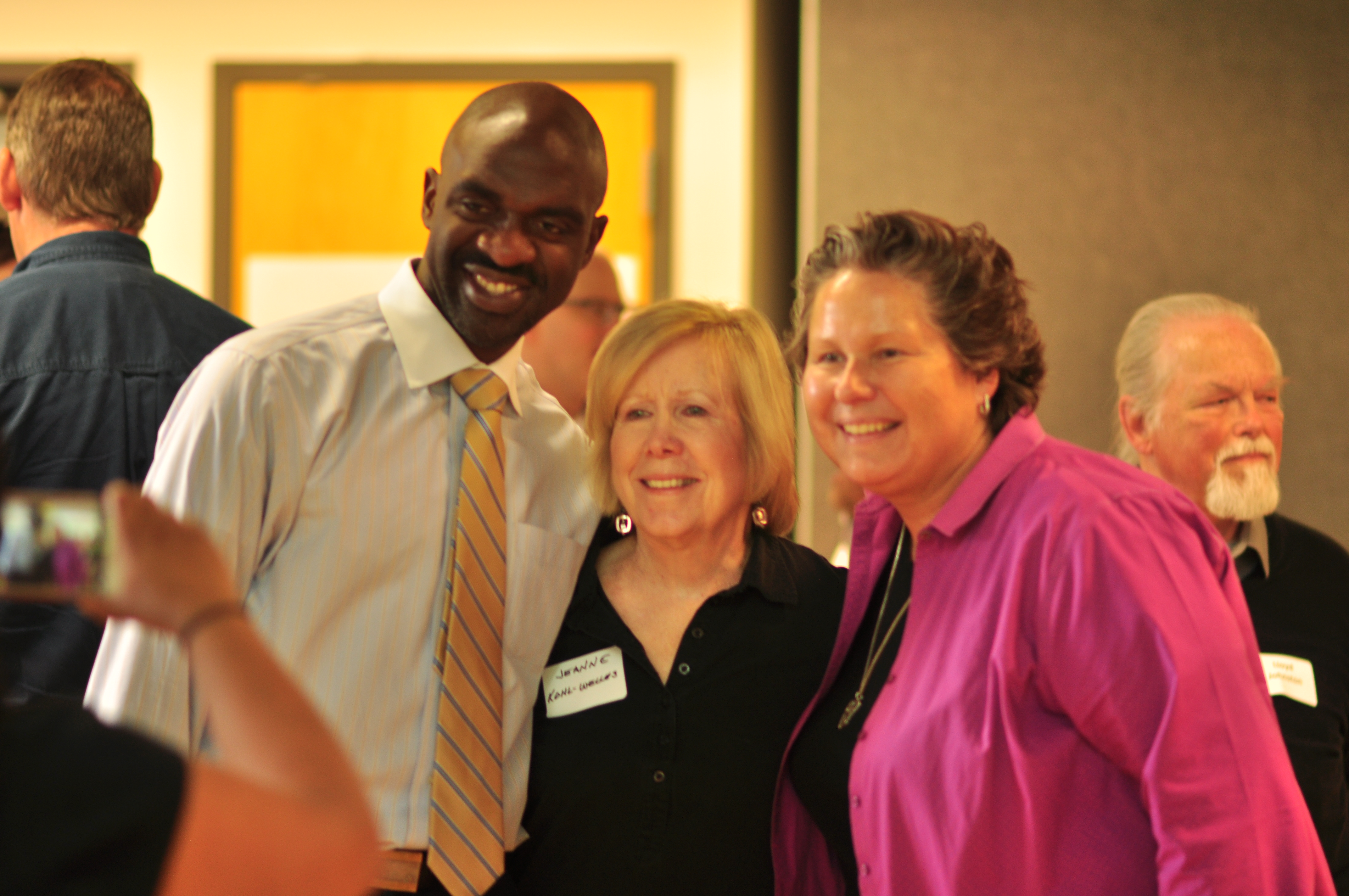 New York Assemblyman and vice chair of the Democratic National Committee Michael Blake, King County Council member Jeanne Kohl-Welles, and Washington State Democratic Party chair and former Seattle City Council member Tina Podlodowski attending Bob Ferguson's annual Shrimp Feed, Northgate Community Center, Seattle, Washington.